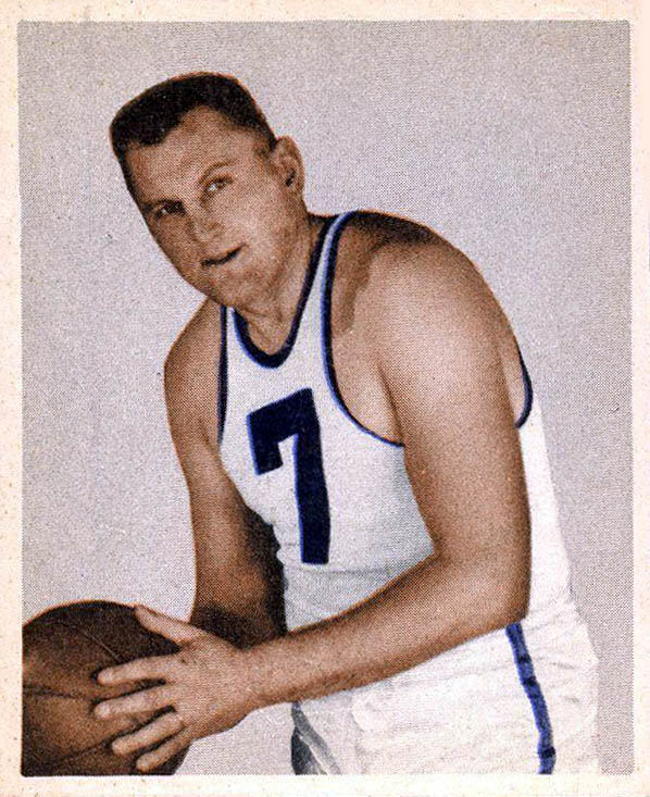 Ed Sadowski variation color for a Bowman trading card.